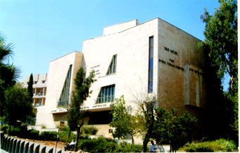 A building of Yeshivat Mercaz haRav (ישיבת מרכז הרב), a Hardal yeshiva situated in Jerusalem.